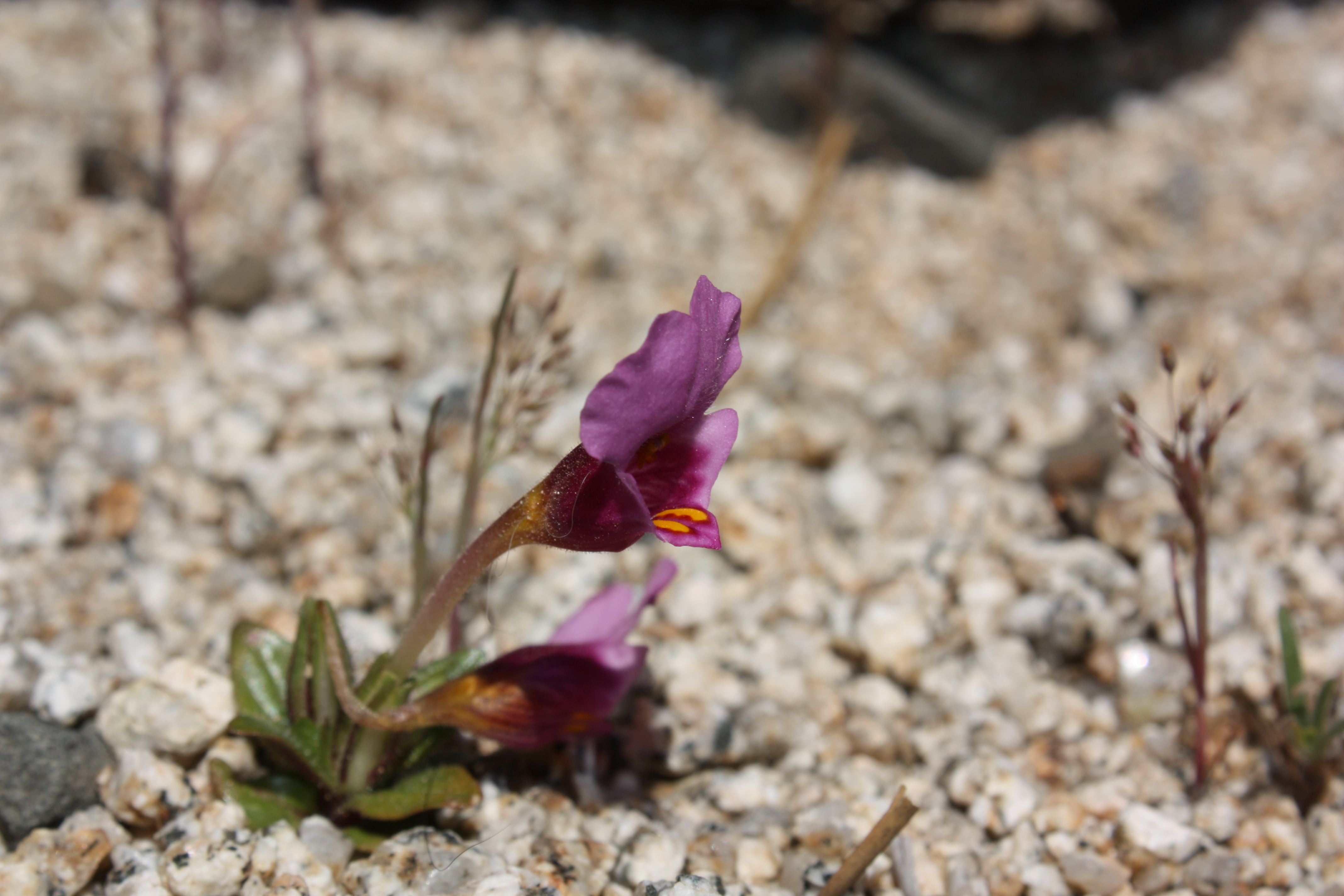 Brownies, Purple Mouse Ears Viewpoint location: Trail at Rough and Ready Flat Botanical Area Viewpoint elevation: 425 meter (1395 ft) Location source: Garmin GPSmap 60CSx Location Datum: WGS84